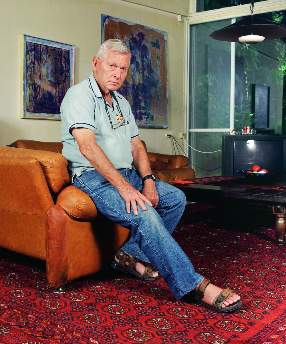 Art of Israel